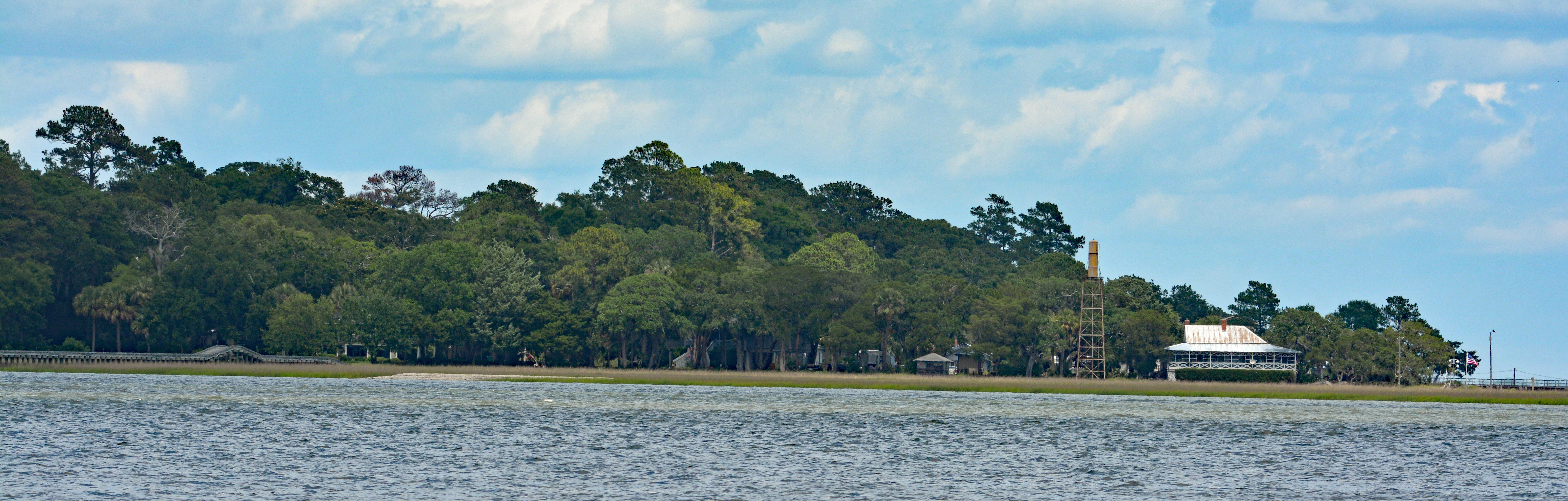 The south end of Willimgton Island in Chatham County, Georgia, U.S. As seen from Skidaway Island, about 1.8 kilometers away. The house is called Eureka Club/Farr's Point and is on the National Registry of Historic Places.